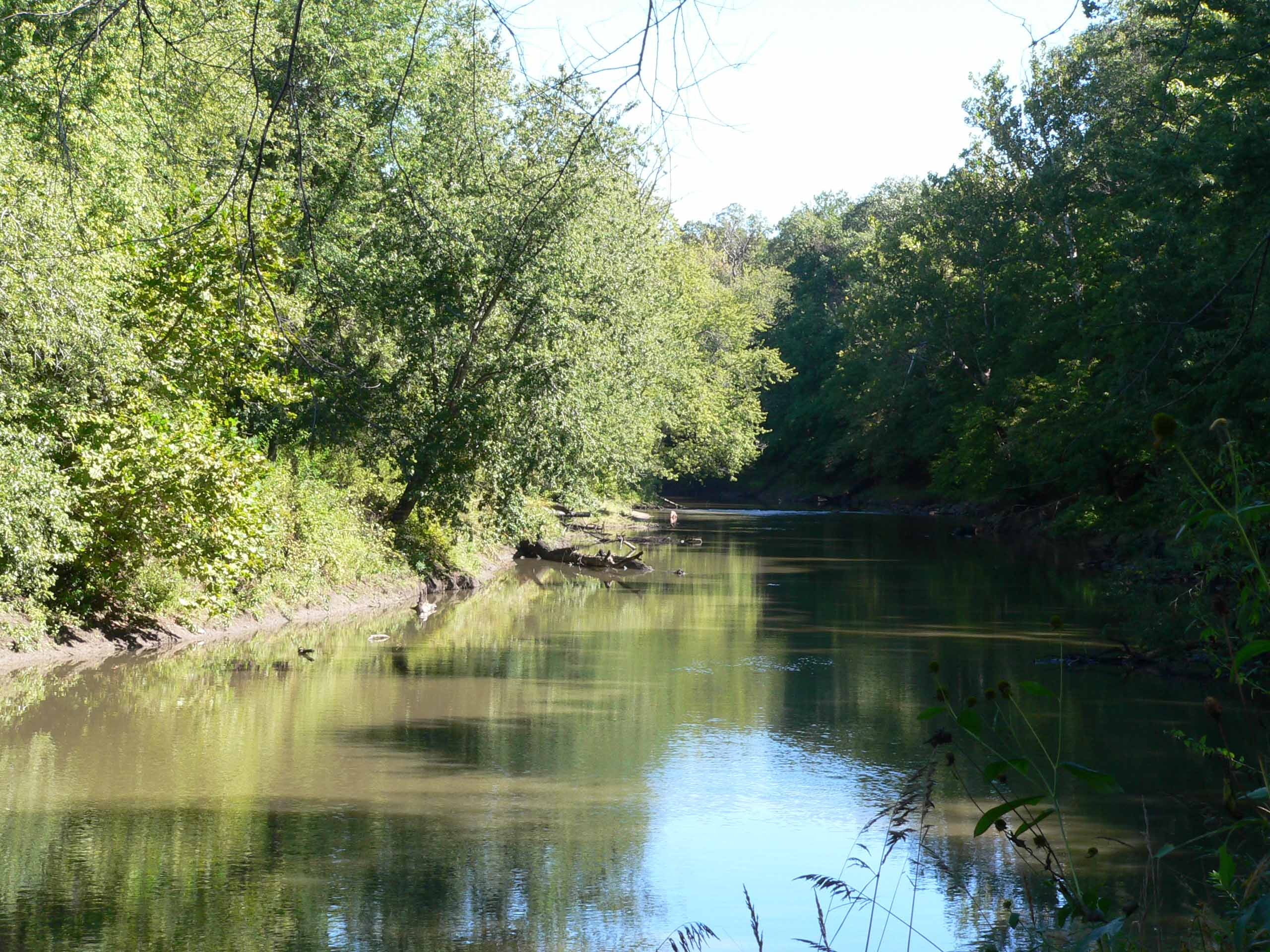 Image of the Sangamon River in Illinois, southwest of Decatur Illinois in October 2005. Taken by me Douglas Grohne.